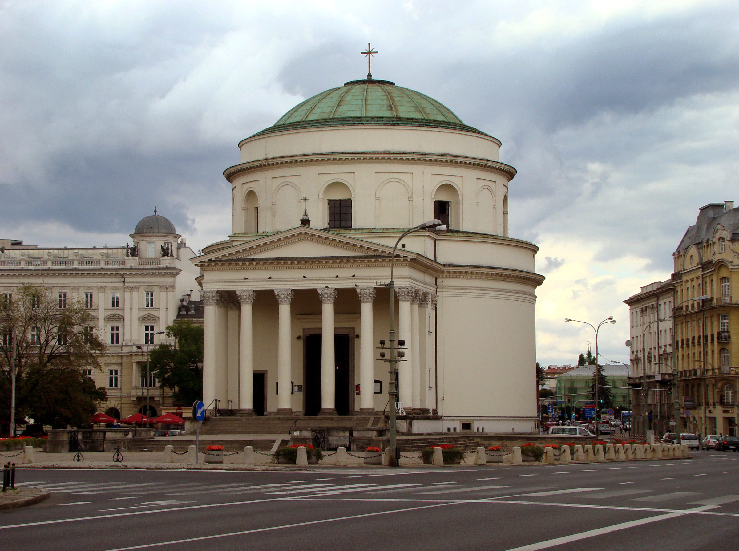 St. Alexander church, Warsaw, 19th century